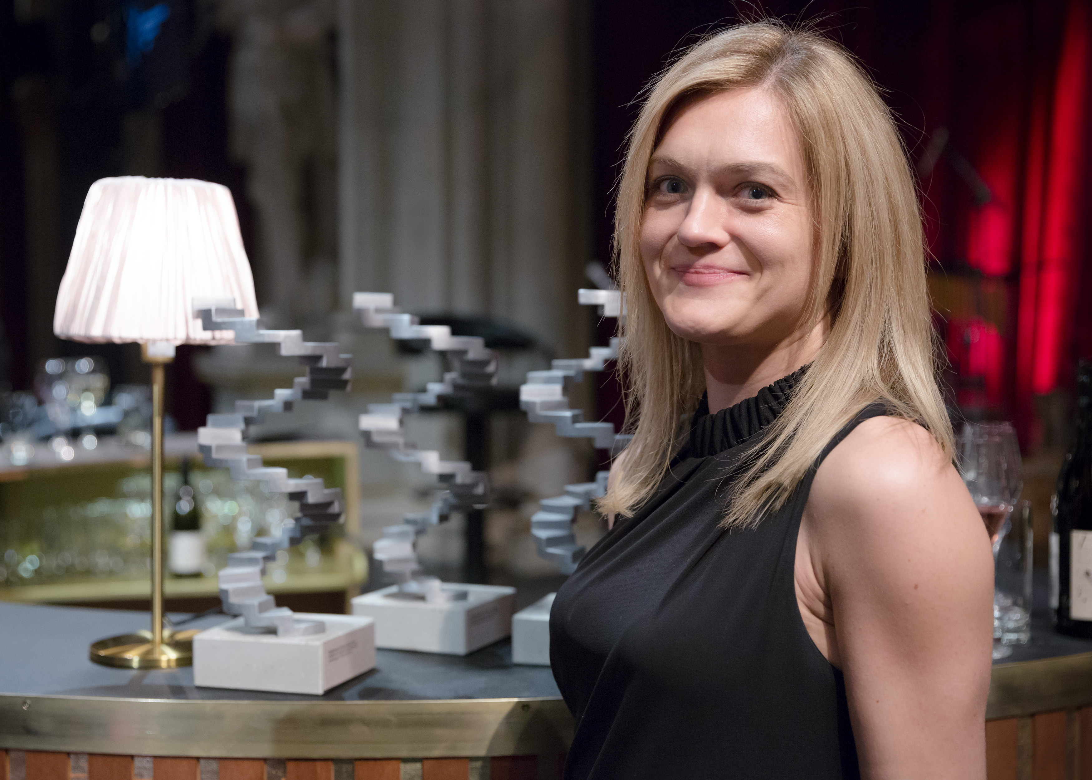 Barbara Eder with the trophies for best fiction film, best script and best director for Thank You for Bombing at the Austrian Film Awards 2017 (Rathaus, Vienna,Austria).